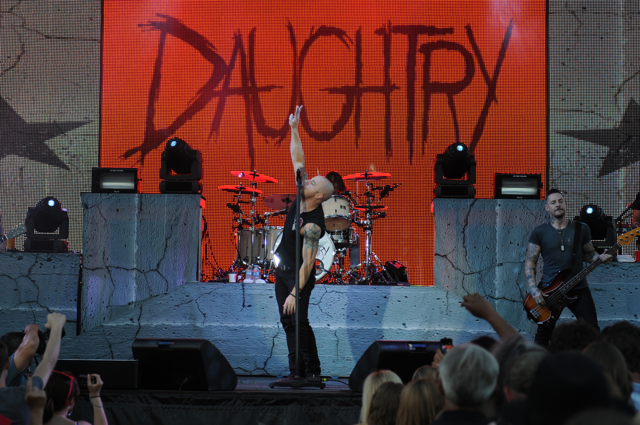 Chris Daughtry, lead singer of rock band Daughtry, performs for thousands of Fort Carson soldiers, Family and friends of Fort Carson during a free concert held at Iron Horse Park to conclude Iron Horse Week, June 8, 2012.